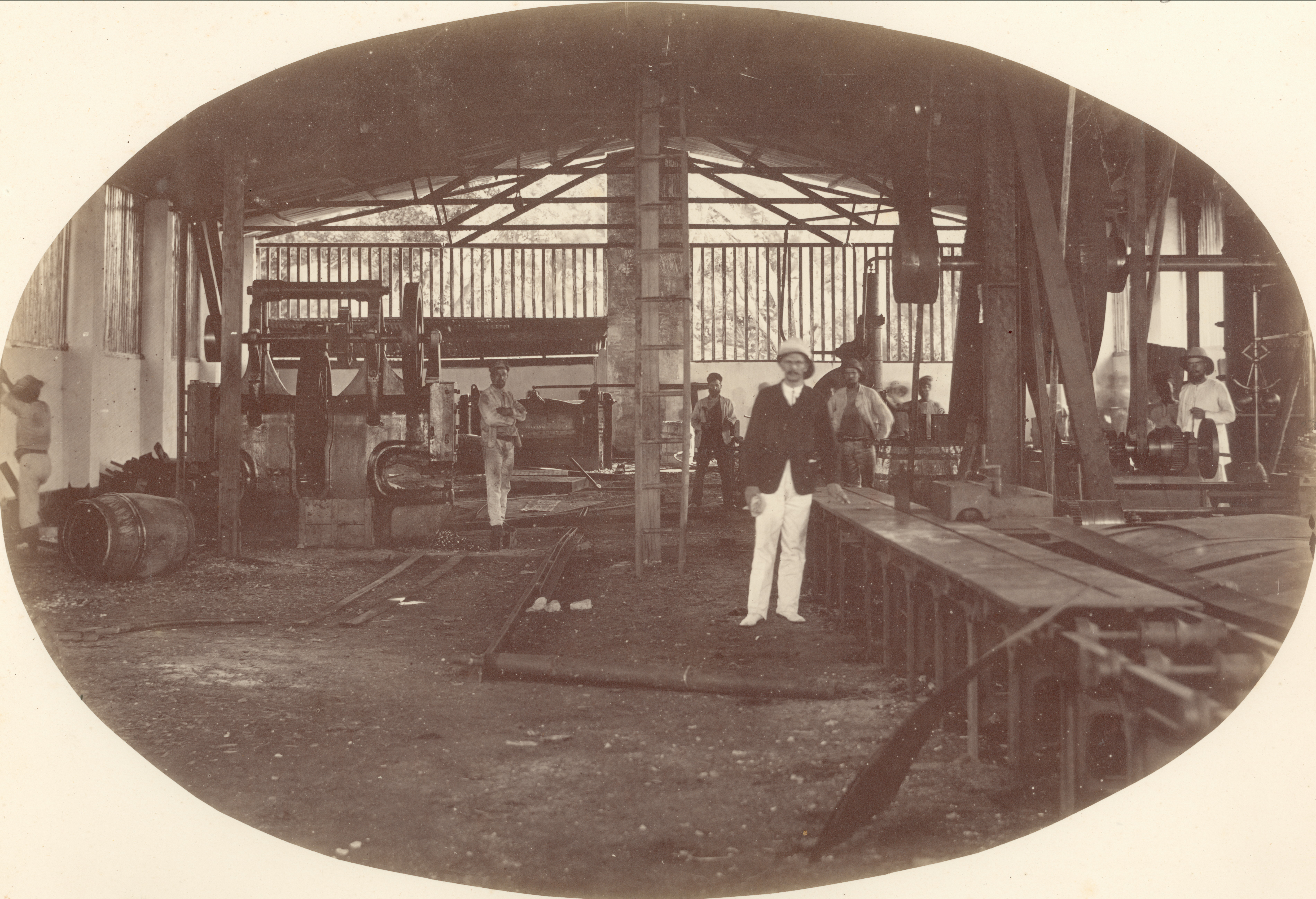 Interior of the shipyard of the Dutch East Indies Dock Society (NIDM) on Amsterdam Island (Untung Jawa)